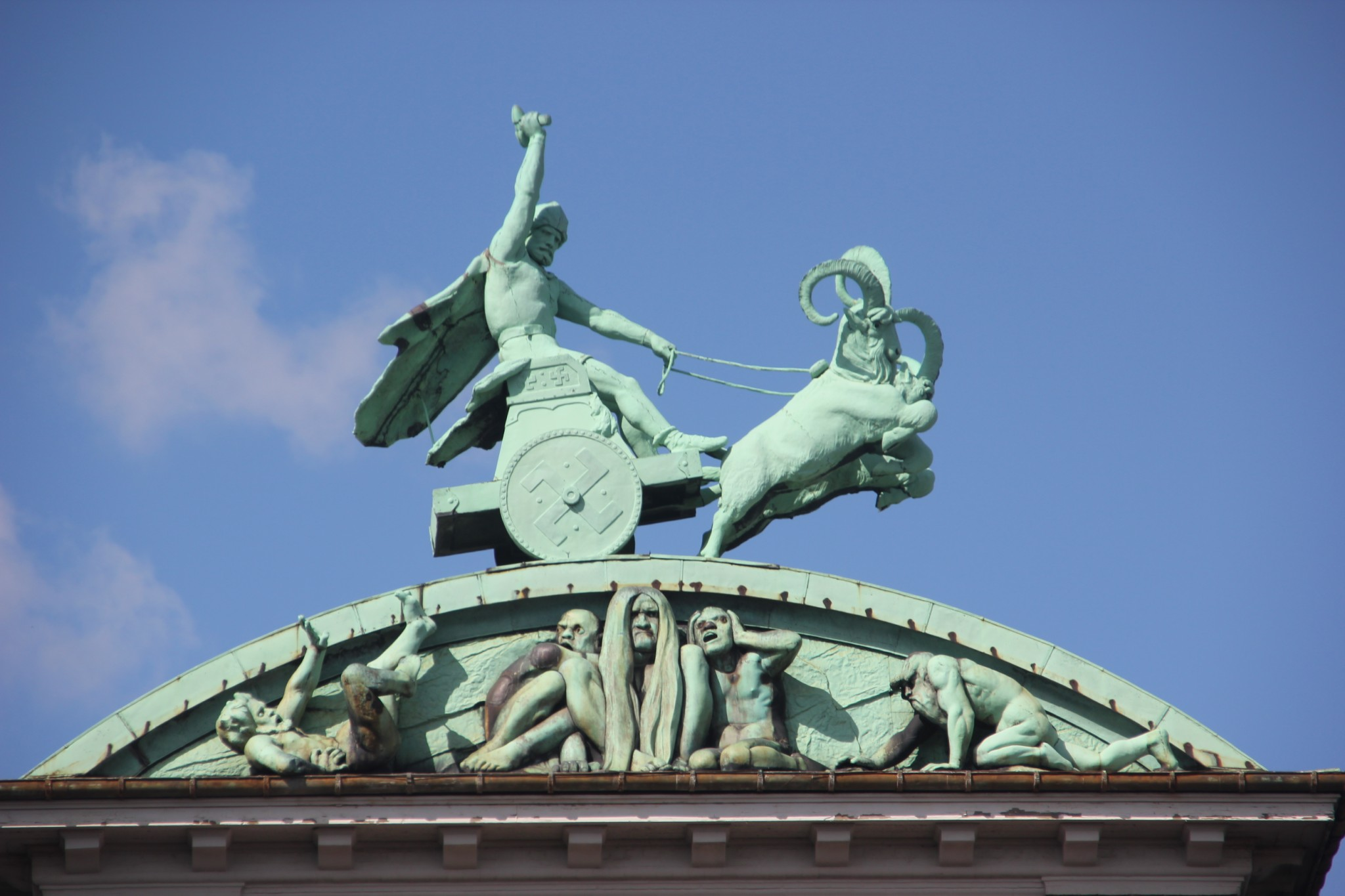 The Thor sculpture group at the top of the Ny Carlsberg Brewhouse in Copenhagen, Denmark